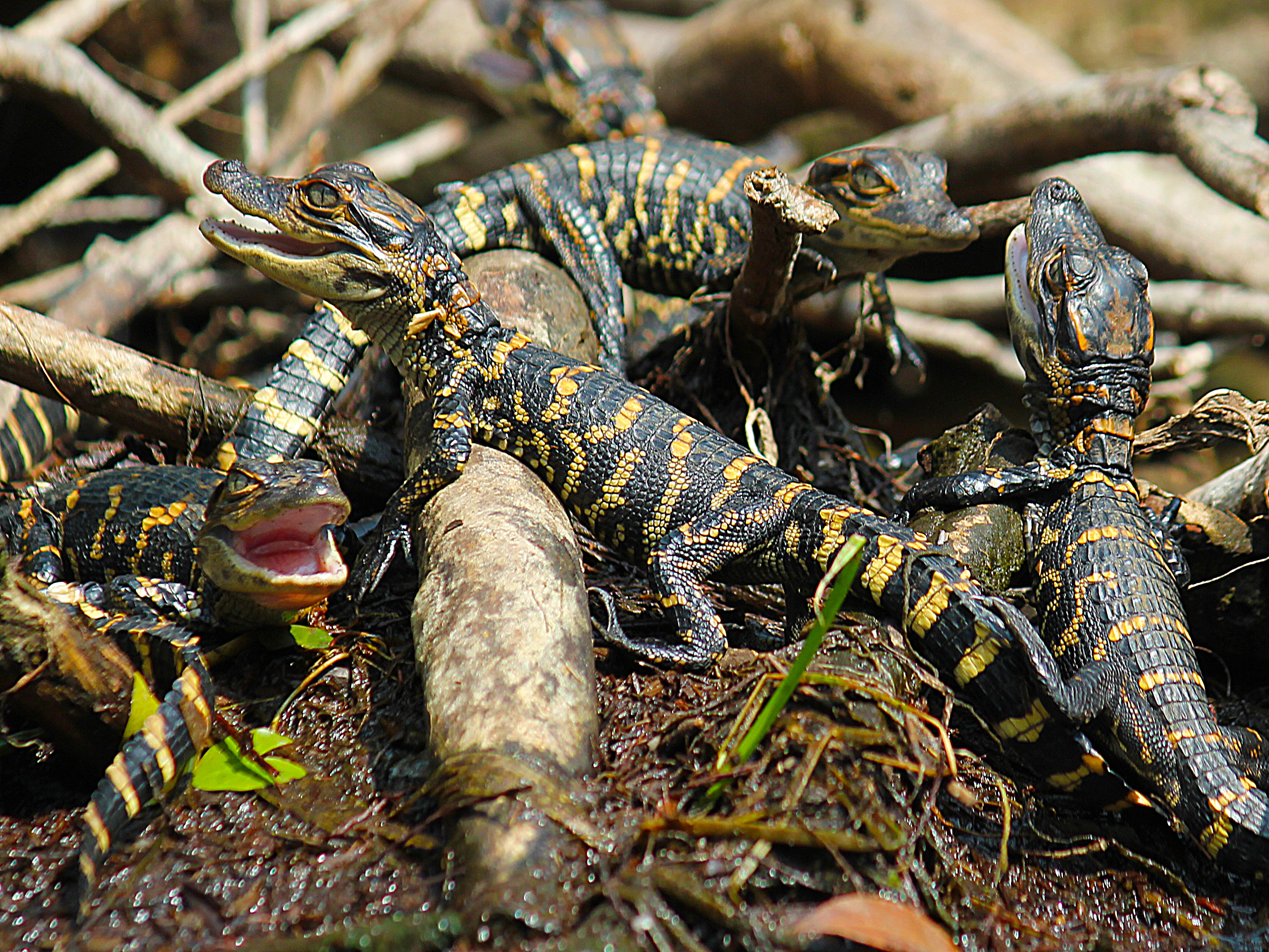 Juvenile American Alligators in Okefenokee Swamp.